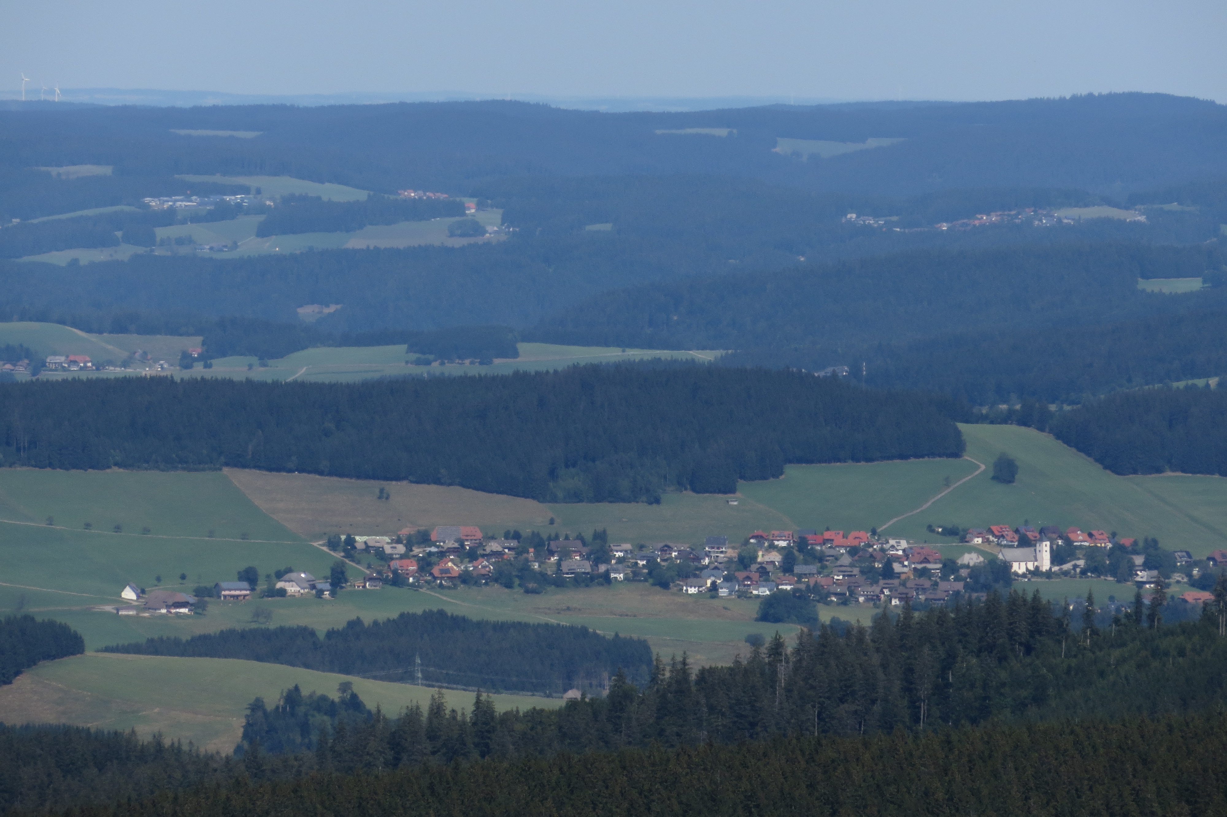 The village of Breitnau in the Black Forest seen from the summit of the Feldberg, Baden-Wuerttemberg, Germany